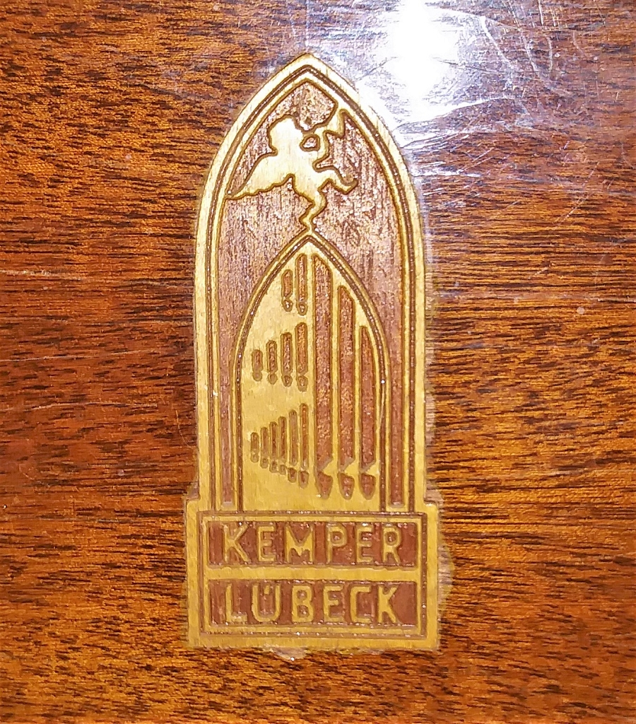 Kirche am Hohenzollernplatz (Berlin)